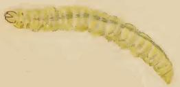 Stainton’s Natural History of the Tineina (1855–1873): Elachista poae